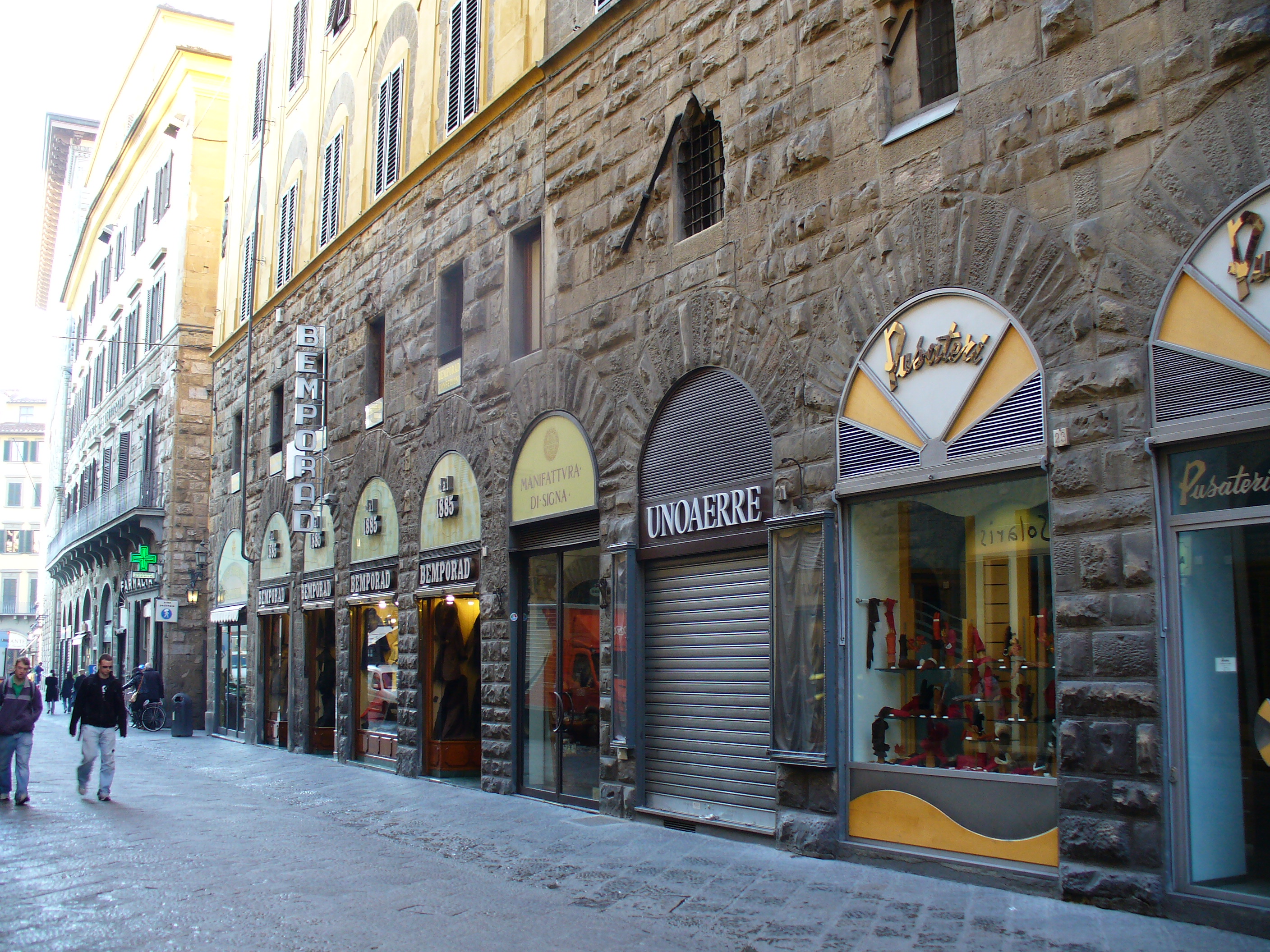 Via dei Calzaiuoli